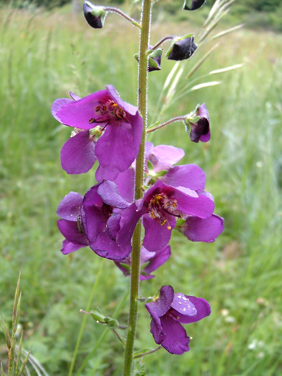 Verbascum phoeniceum, Hungary